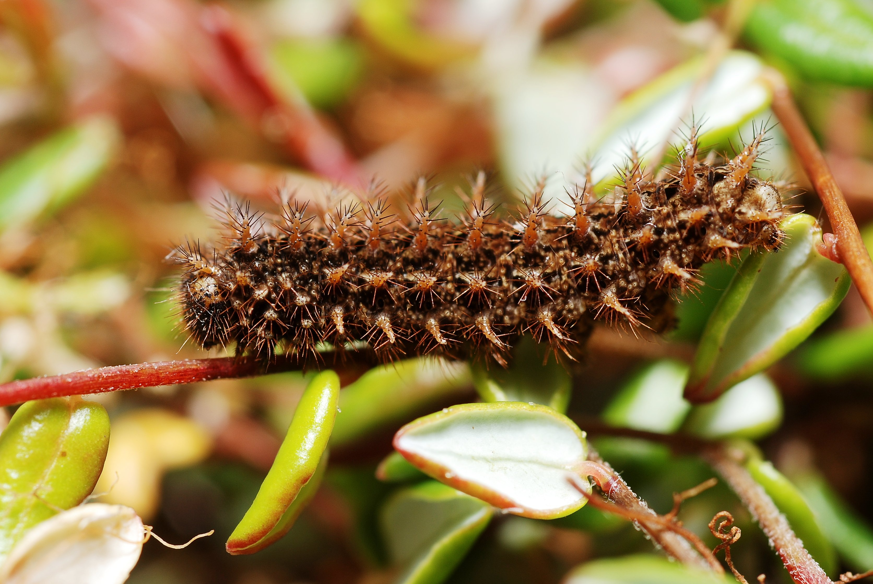 Boloria aquilonaris (Lepidoptera Nymphalidae) caterpillar on its host plant (Vaccinium oxycoccos) Keywords : larva butterfly